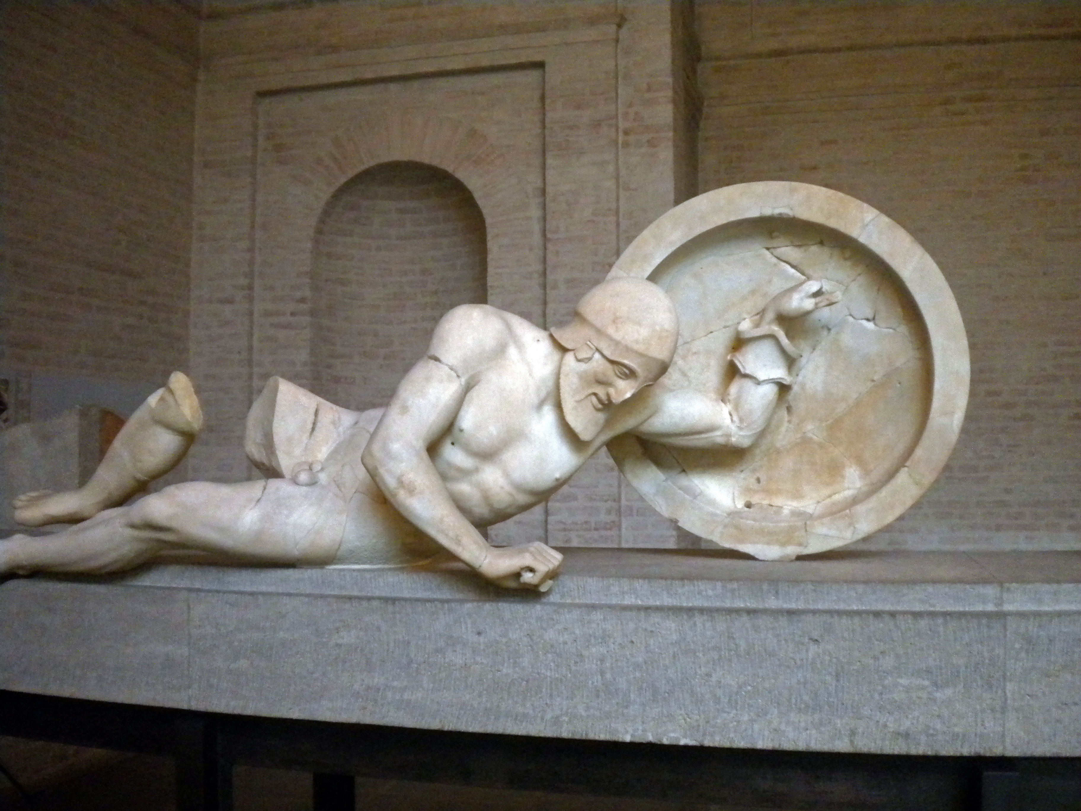 Warrior from the east pediment of the temple of Aphaia